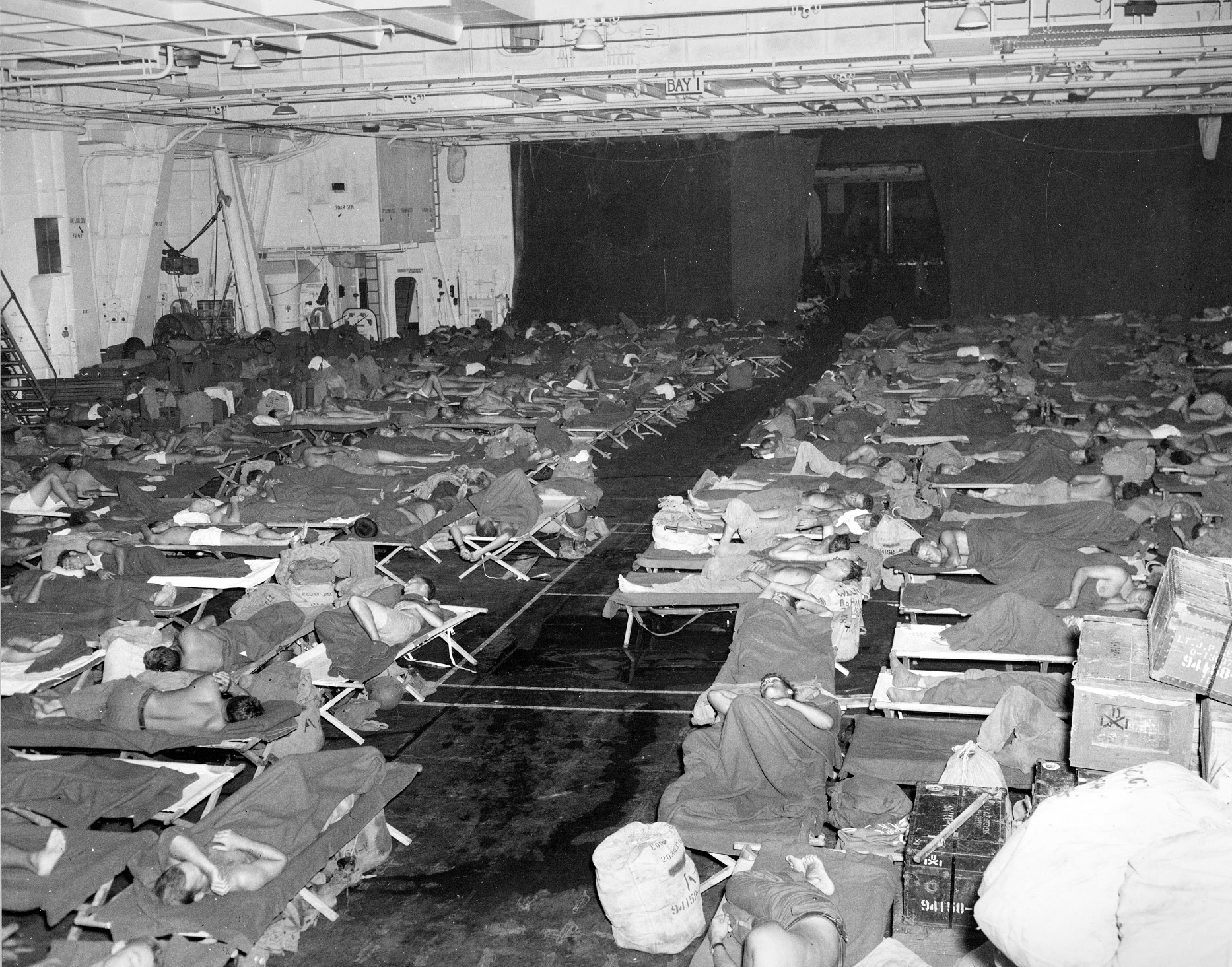 U.S. personnel being transported back to the United States on board the aircraft carrier USS Intrepid (CV-11) during "Operation Magic Carpet".